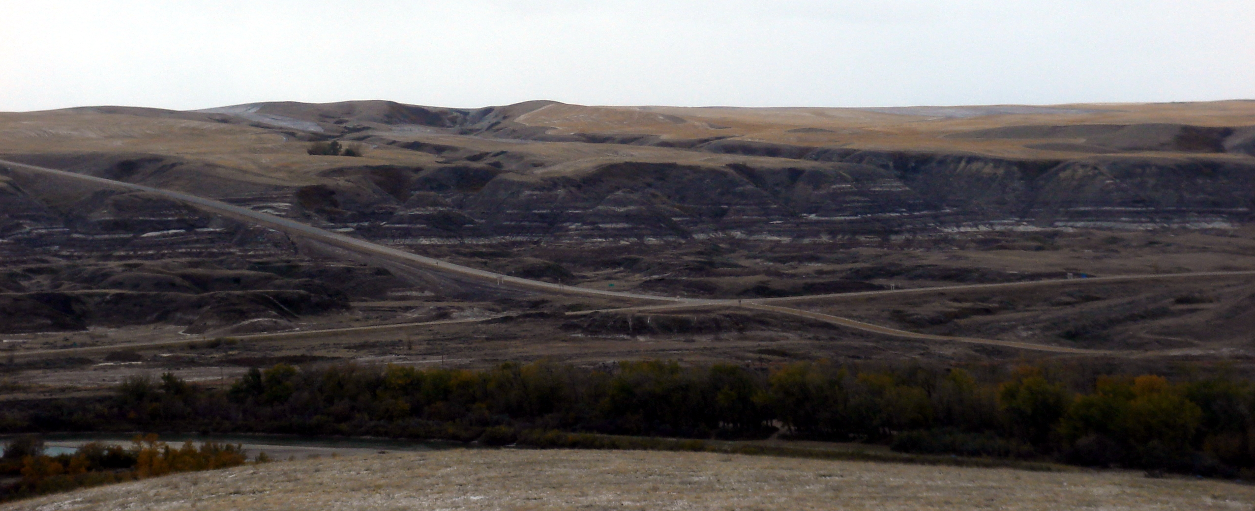 Intyersection of Highway 56 and Highway 10 in Alberta, Canada